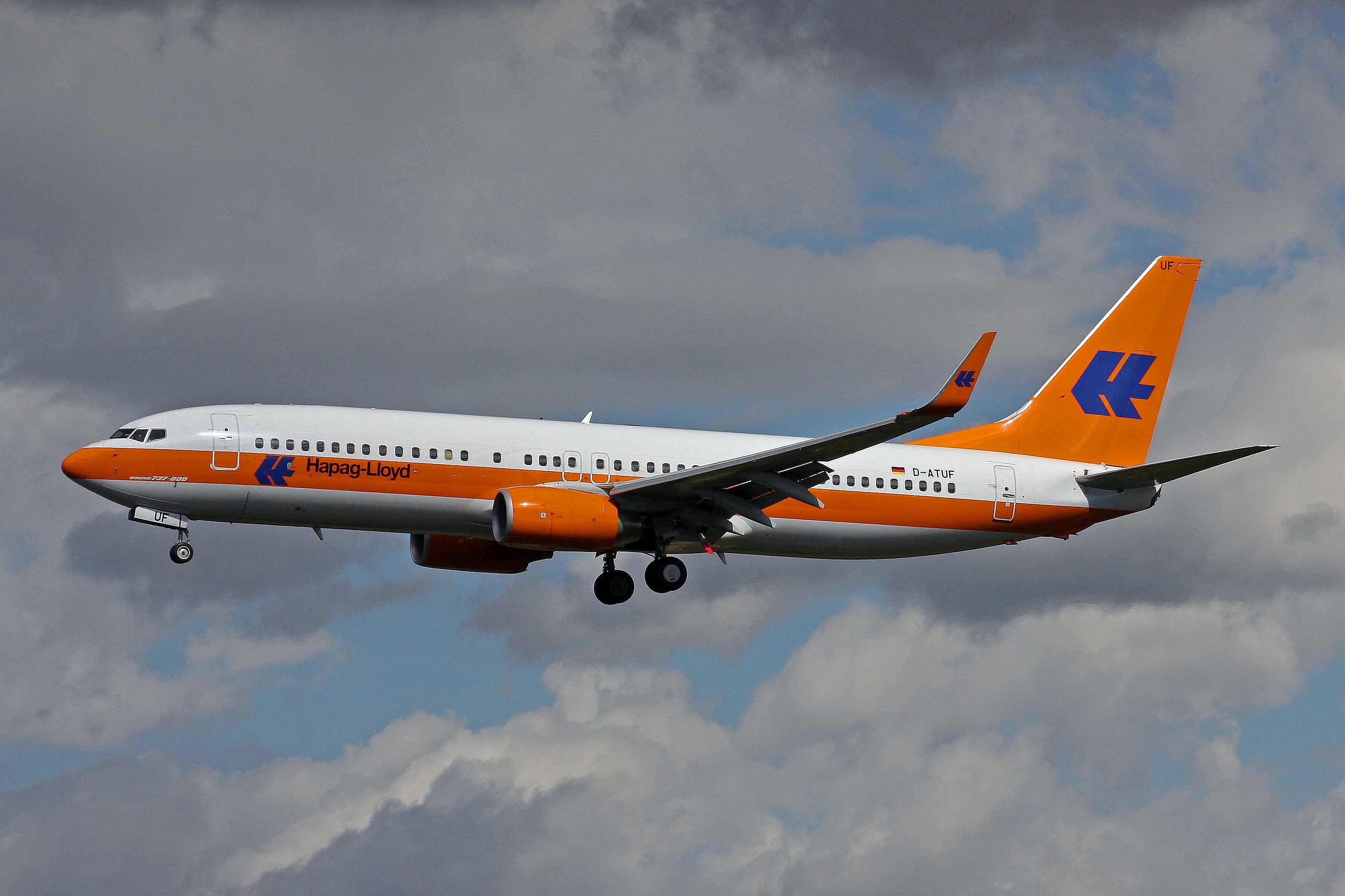 Hapag Lloyd 'retrojet' c/scheme, which, although it bears a strong resemblance to the original Hapag Lloyd c/scheme, is not the same !! The original orange 'cheatline' was split blue/orange with titles in blue on the upper fuselage!